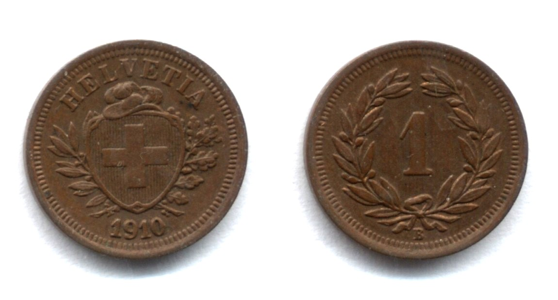 Rappen coins: Switzerland 1910